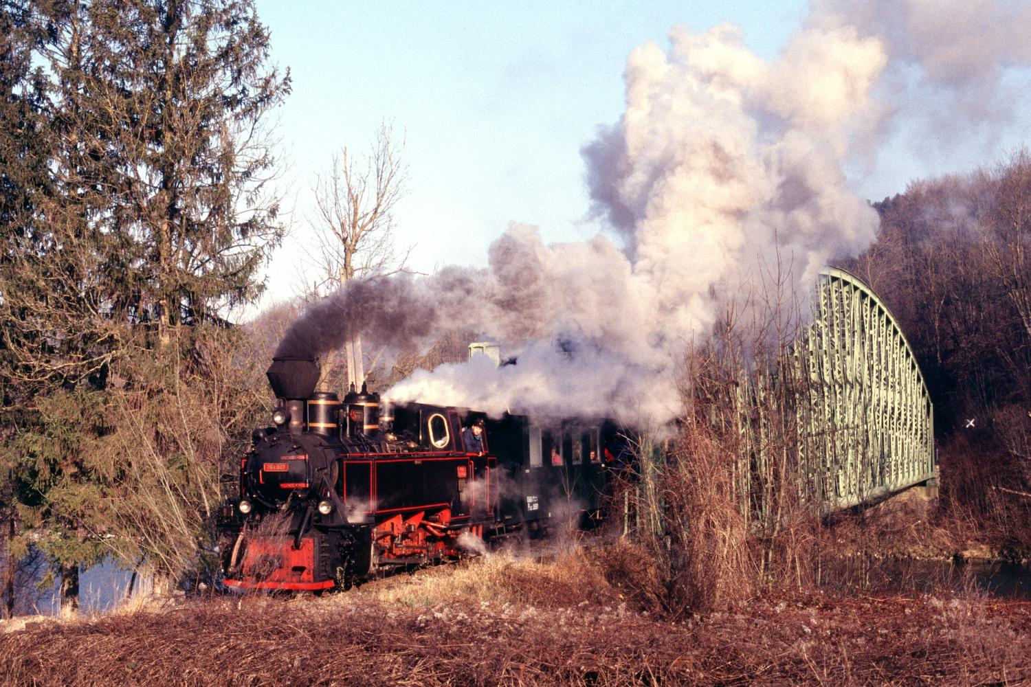 Train of the preserved Steyrtalbahn in Upper Austria on the bridge over the river Steyr near Waldneukirchen halt. The loco 764.007 is a former Romanian forstry engine.